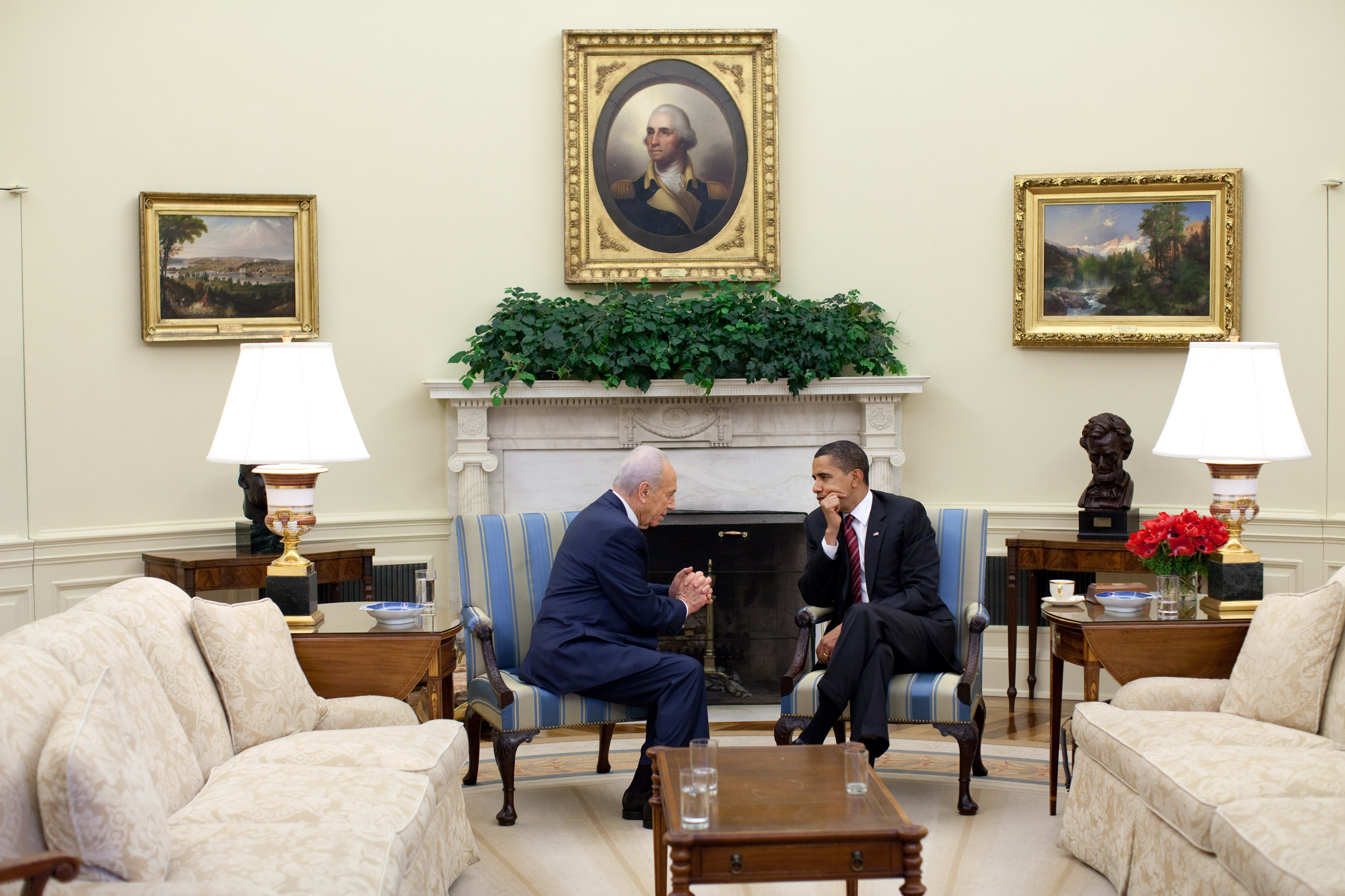 President Barack Obama meets with Israeli President Shimon Peres in the Oval Office Tuesday, May 5, 2009. On the left is the painting City of Washington From Beyond the Navy Yard (1833) by George Cooke. Above the mantel is Porthole Portrait of George Washington (1795) by Rembrandt Peale. On the right is The Three Tetons (1895) by Thomas Moran. On the table to the right is Bust of Abraham Lincoln (1887) by Augustus Saint-Gaudens. Official White House Photo by Pete Souza.